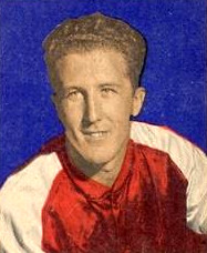 Professional basketball player Fred Lewis